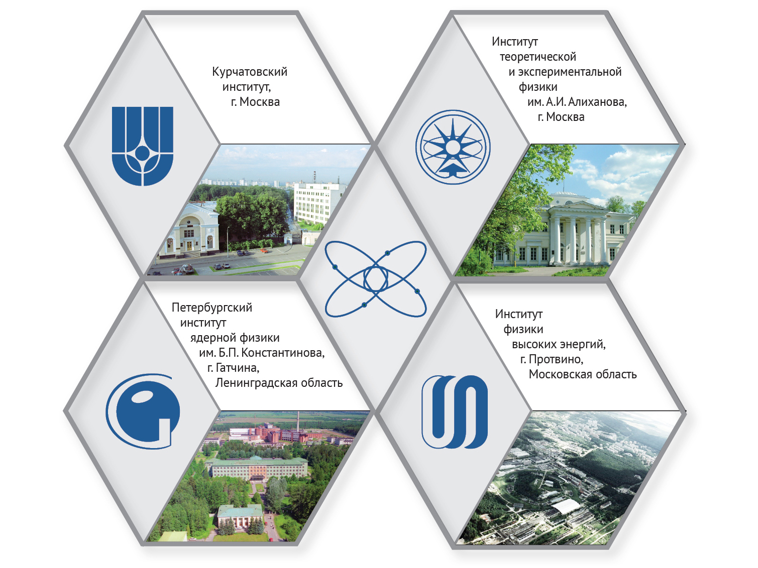 The National Research Center Kurchatov Institute